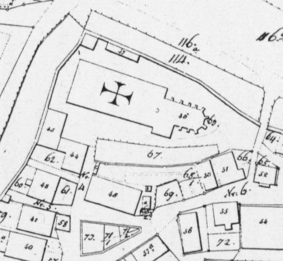 The Johanneskirche on an old map of Weinsberg from 1834 (section)